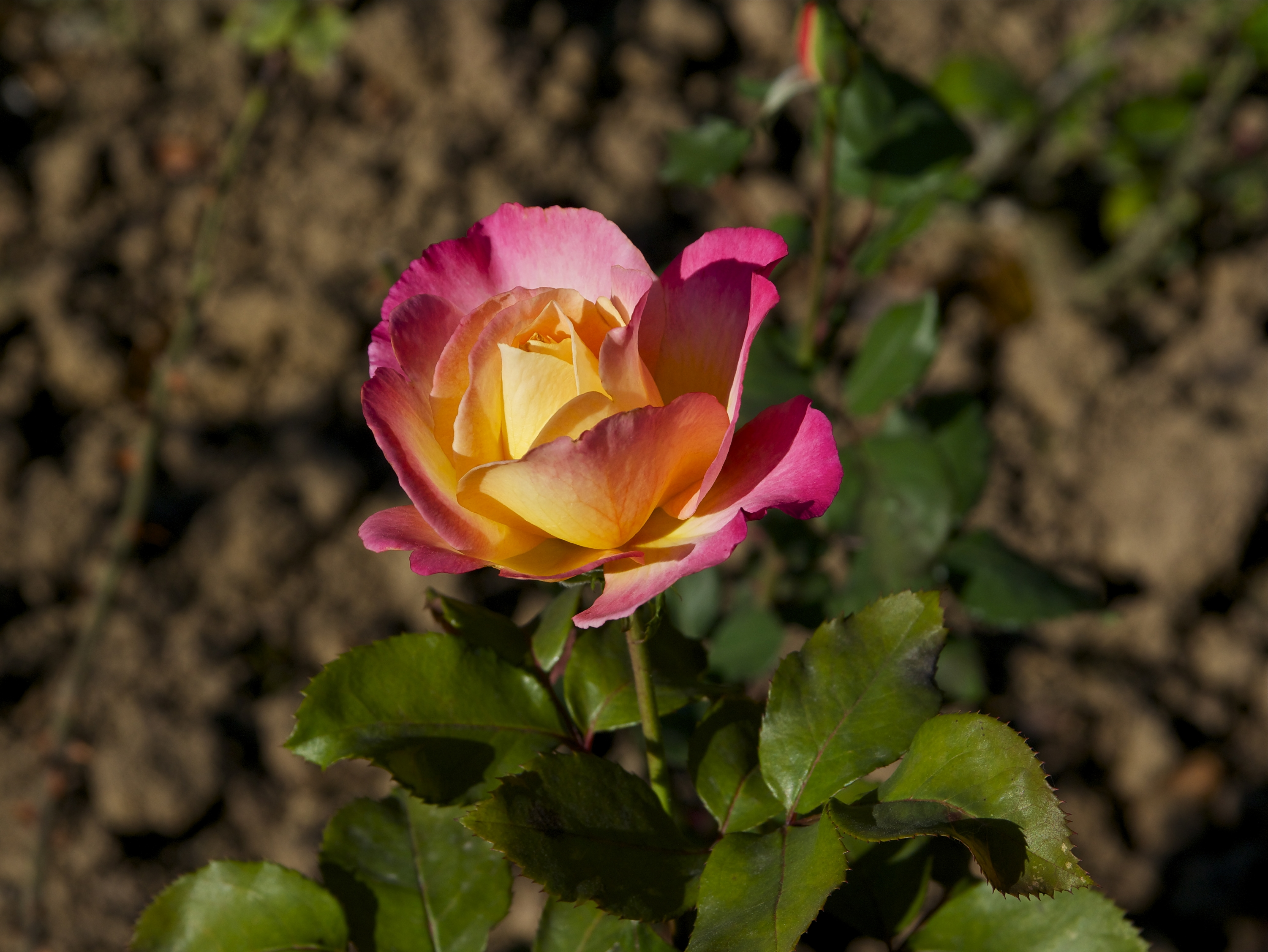 Rosa hybrid tea. Jardin des Plantes de Paris.